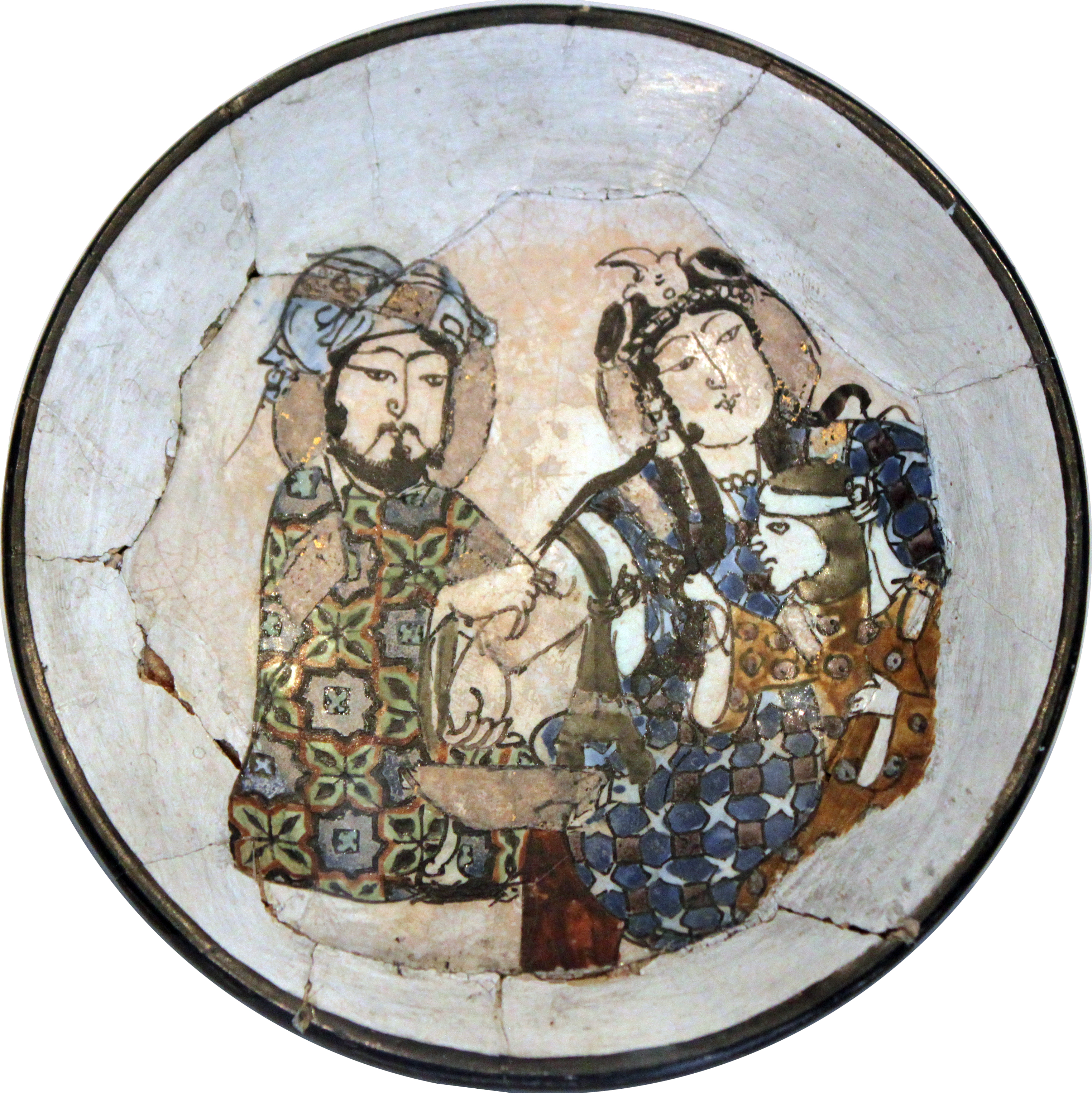 Bowl with bloodletting scene, Iran, 1st Half of the 13th century; Museum of Islamic Art in Berlin (Pergamon Museum), inv I. 4350